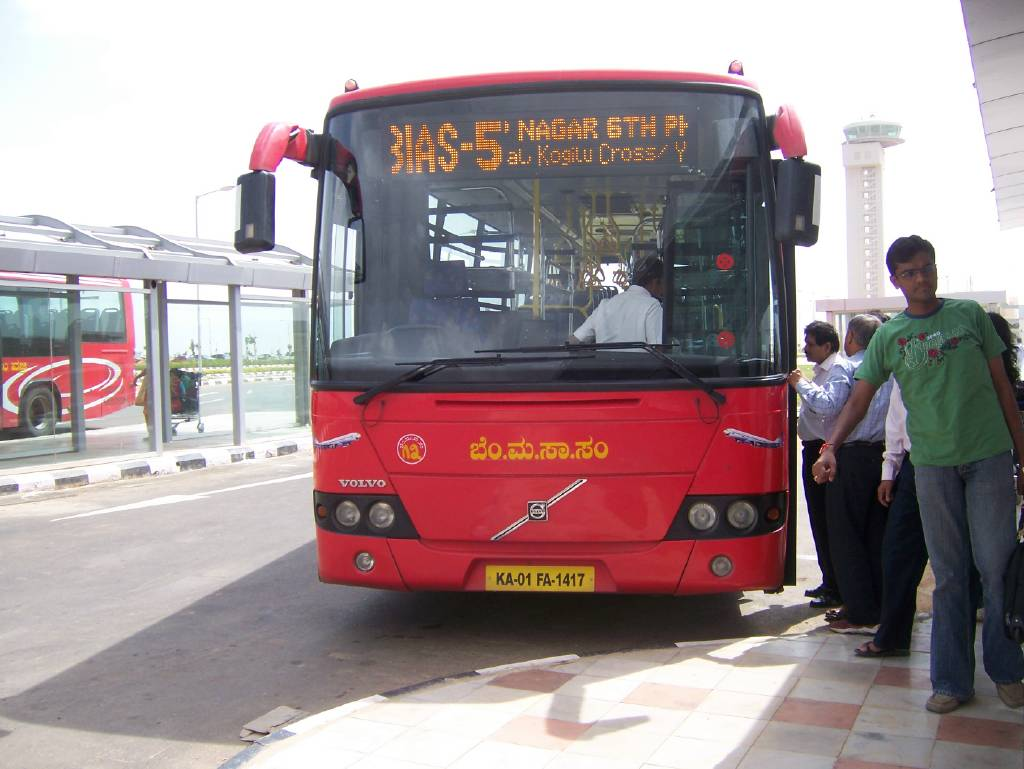 Bangalore's new Volvo busses